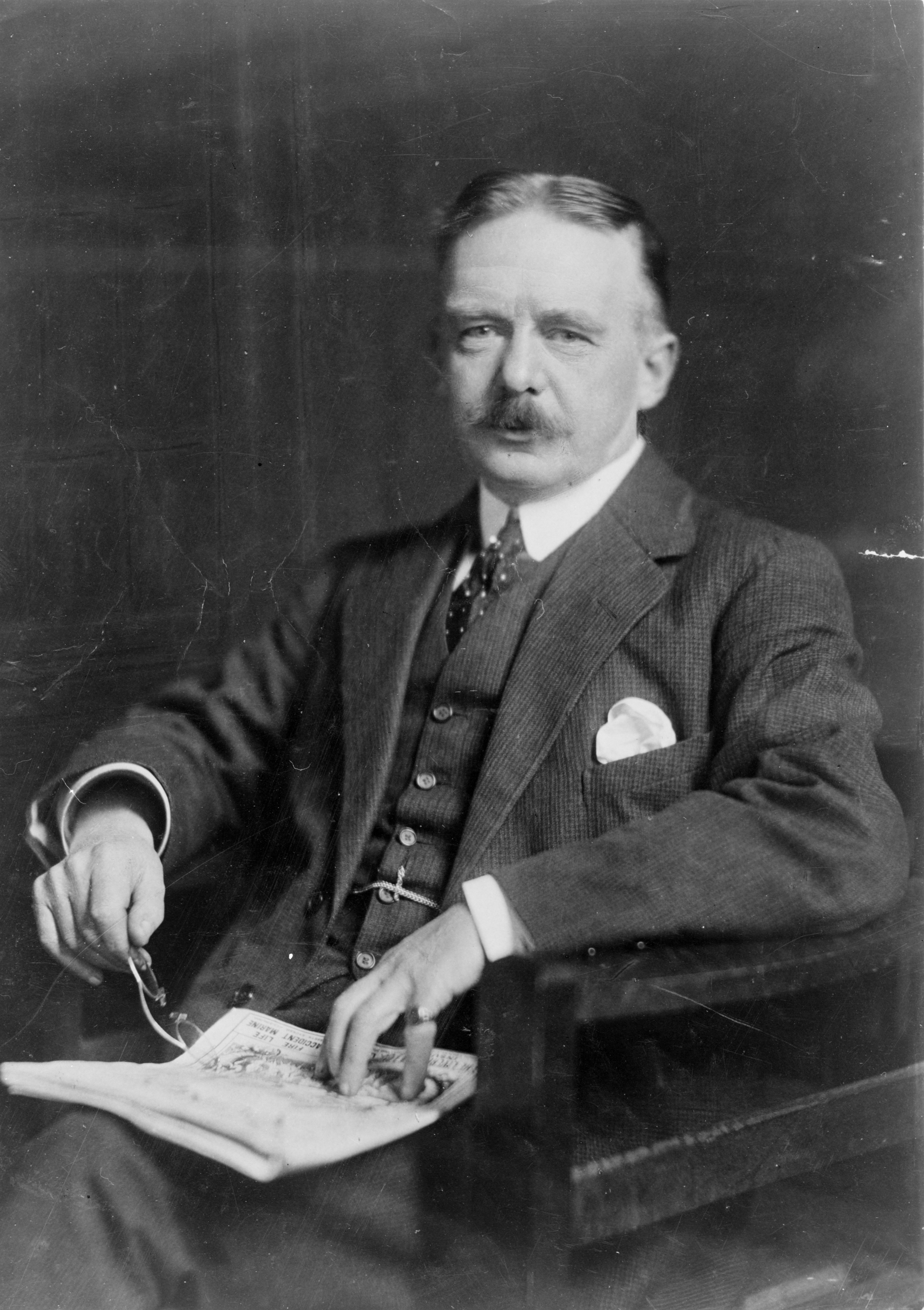 Portrait of Charles Wilson (1857-1932)